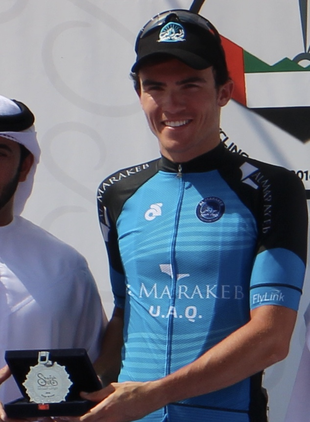 David Williams receiving the award for 2nd in the young rider classification at the 2016 Sharjah International Cycling Tour